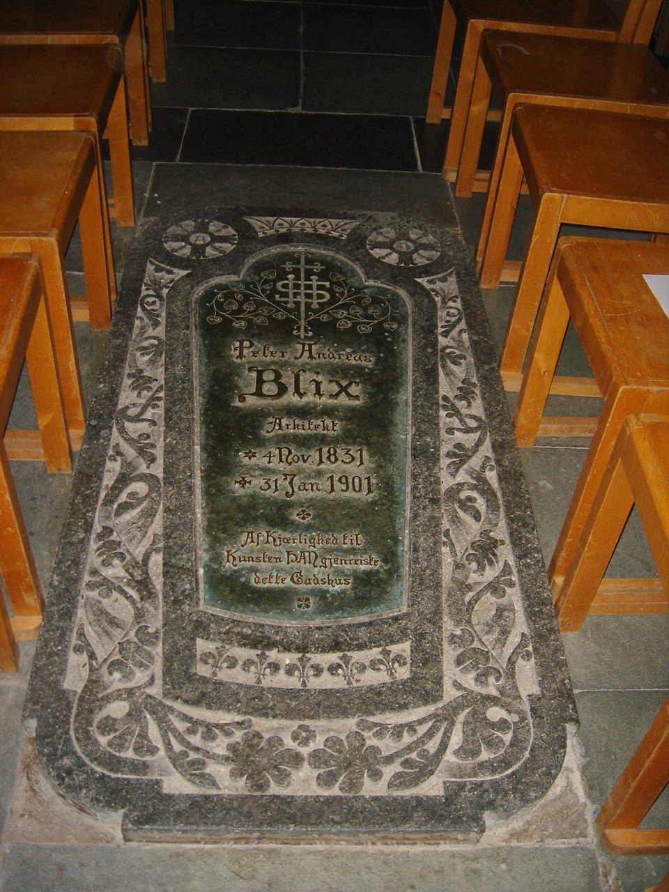 Grave of Peter Andreas Blix in Hove kirke, Vik, Sogn og Fjordane, Norway